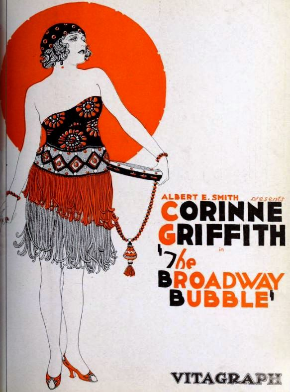 Advertisement for the American drama film The Broadway Bubble (1920) with Corinne Griffith, from the insert after page 18 of the October 30, 1920 Exhibitors Herald.